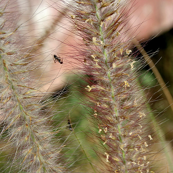 Pennisetum hohenackeri Hochst. ex Steud. (syn. Pennisetum catabasis Stapf & C.E.Hubb.; Pennisetum alopecuros Nees ex Steud.) - in Hyderabad, India.